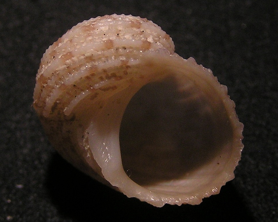 Pseudostomatella elegans Gray, 1847, a top snail in the family Trochidae; Philippines